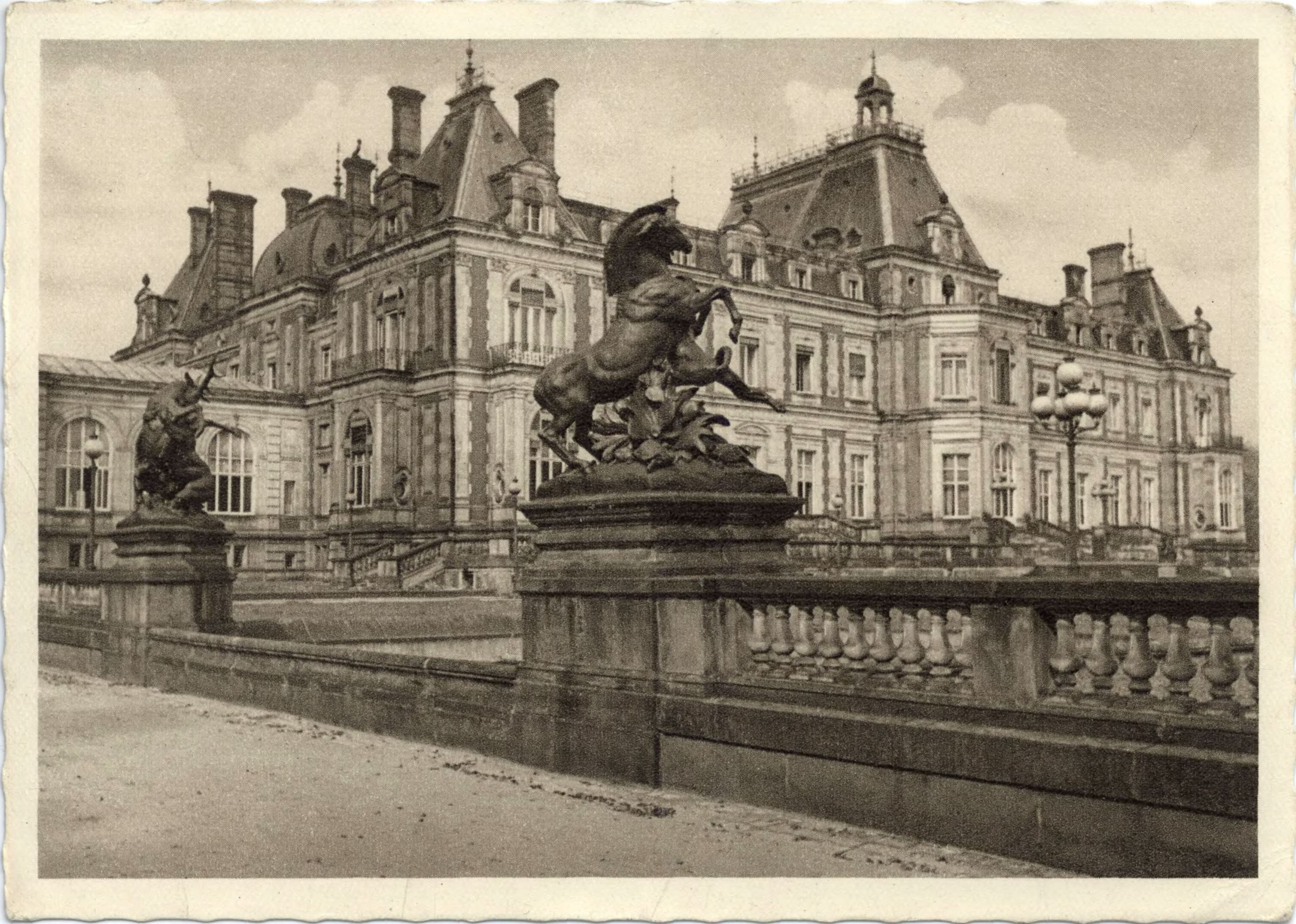 The New Palace in Świerklaniec with the sculptures of Emmanuel Frémiet in front of him. The palace was destroyed in 1945 but not the sculptures.